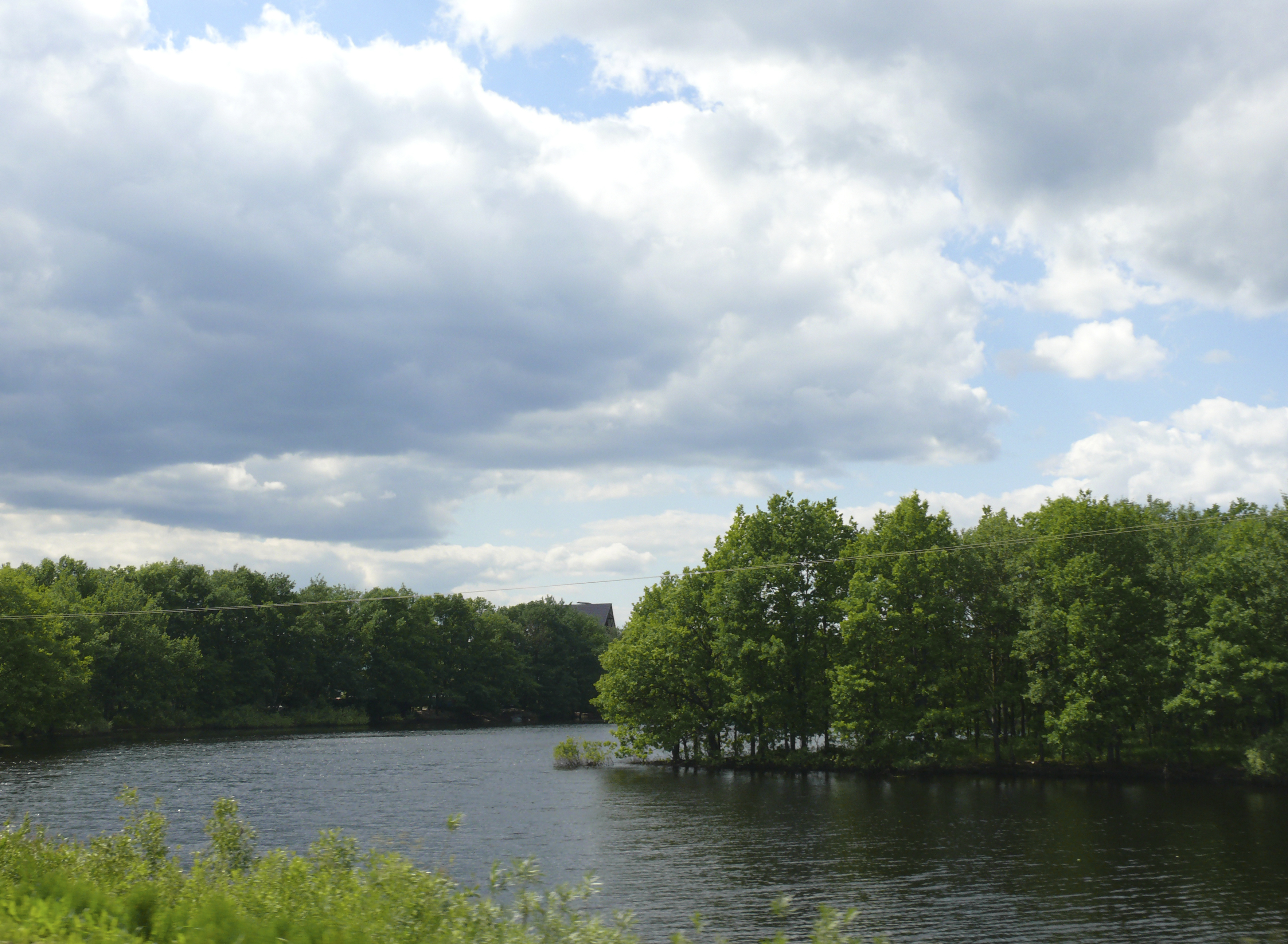 Veronda river in Novgorodsky district, Novgorod oblast, Russia